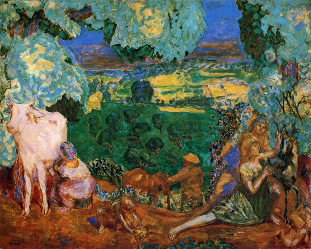 Painting by Pierre Bonnard